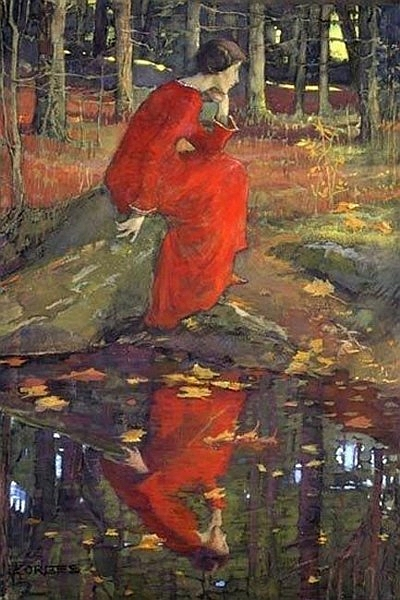 The Leaf